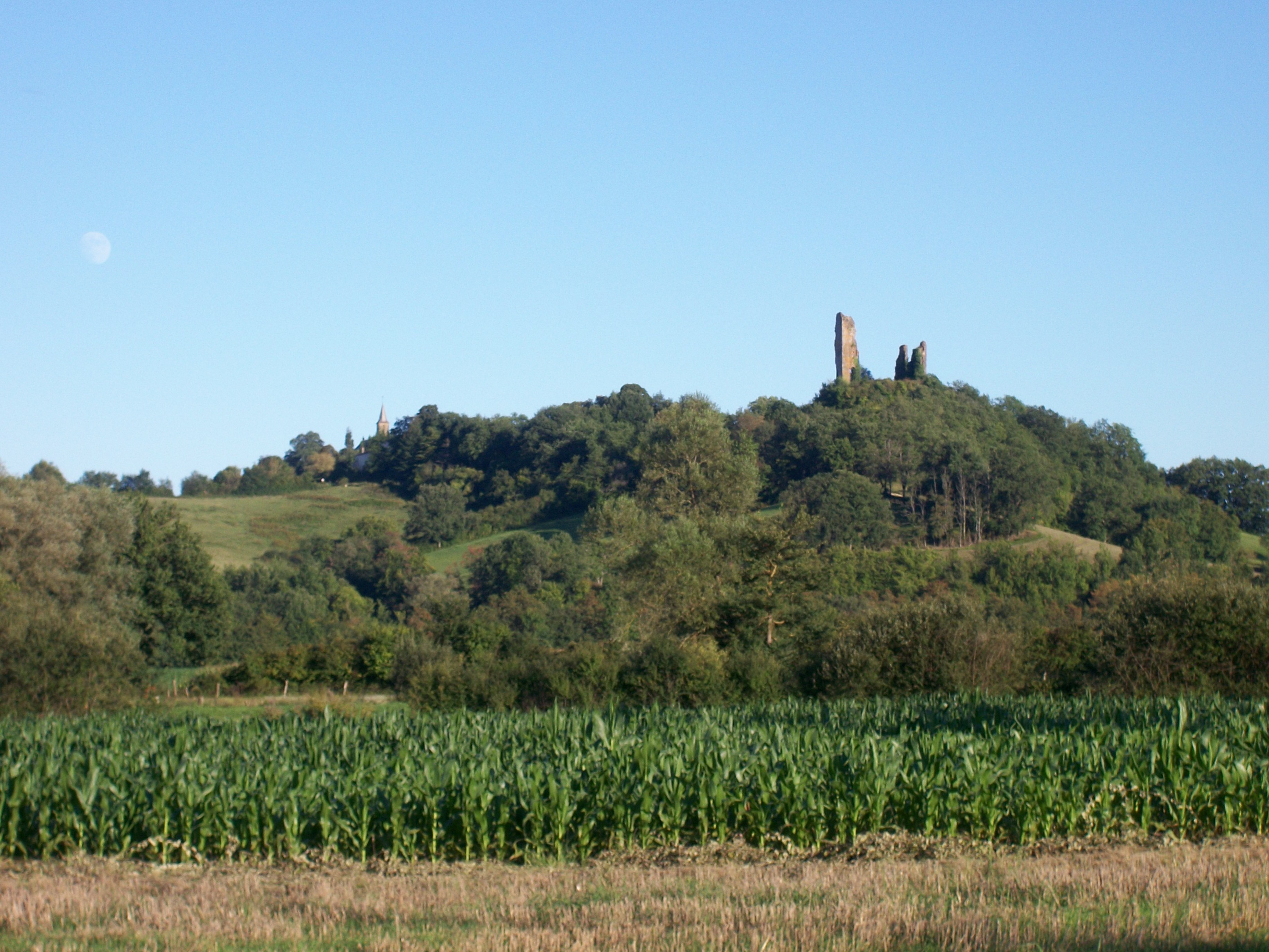 Monlezun, Gers, France